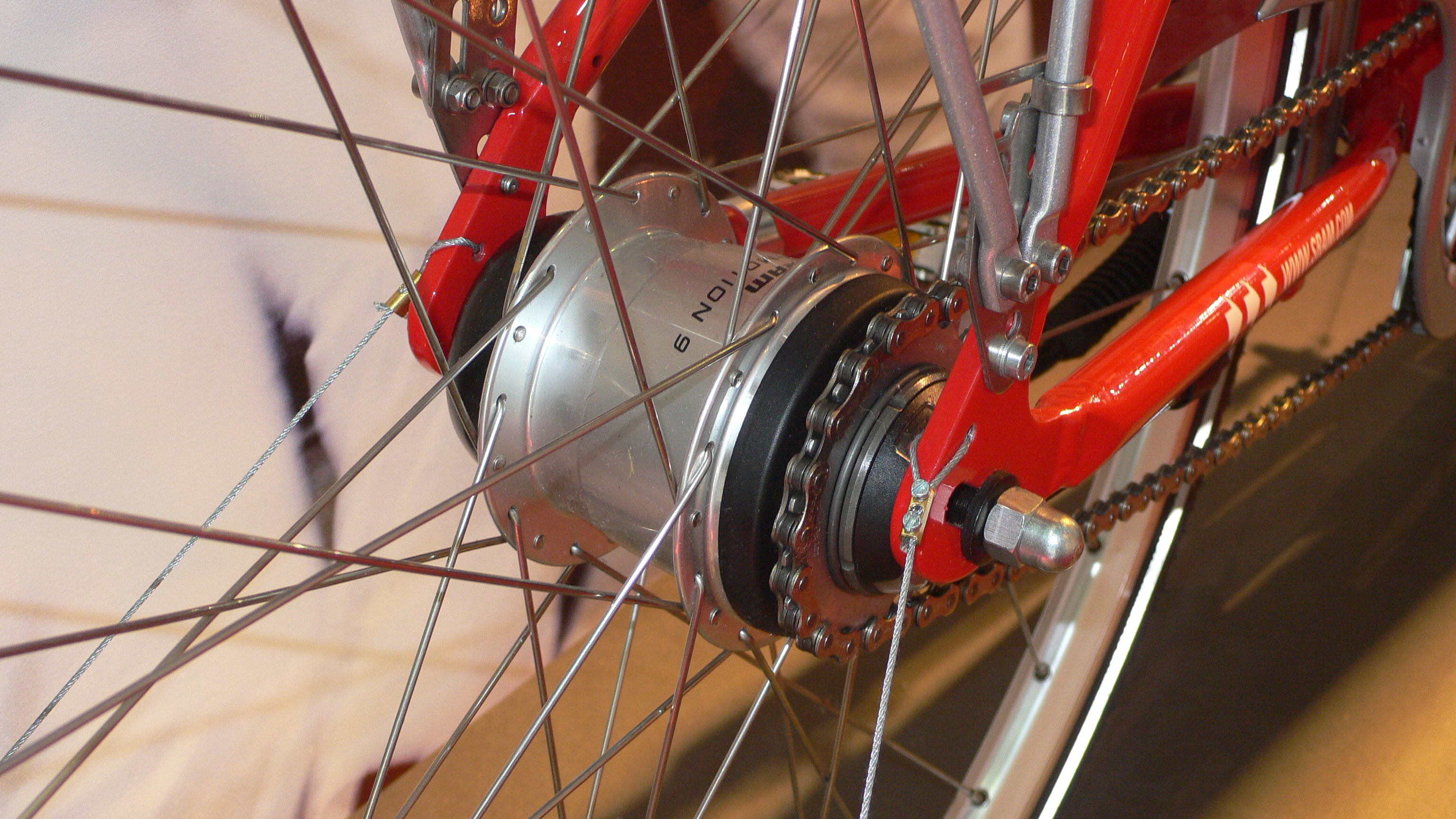 SRAM i-Motion 9 Gear Hub with 9 speeds and coaster brake